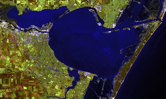 The raw satellite imagery shown in these images was obtain from NASA and/or the US Geological Survey. Post-processing and production by